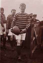 Rugby league player Harold Wagstaff in 1909.